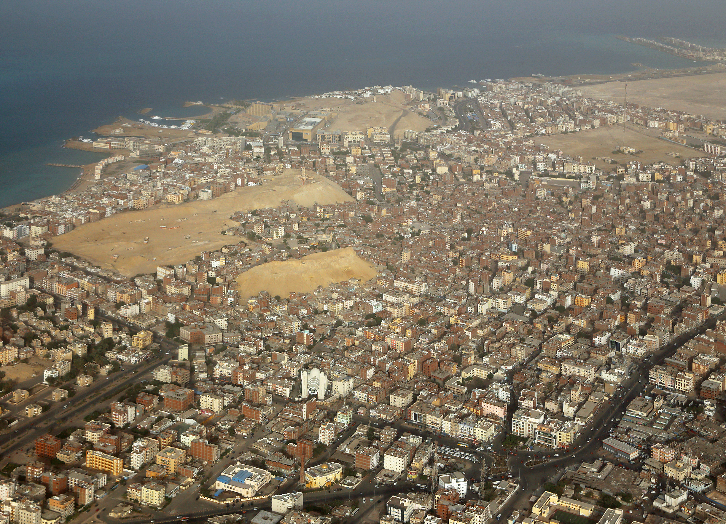 Aerial view of Hurghada (Egypt); in the foreground: El-Nasr street and El-Dahar square